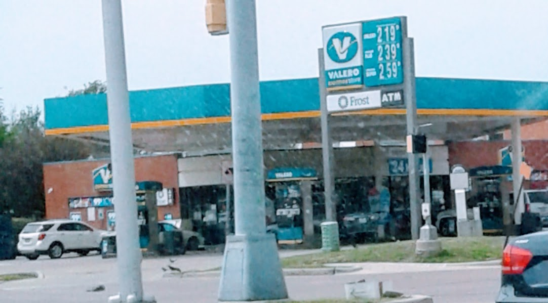 A Valero in Haltom City, Texas that opened in 1986 as Diamond Shamrock, converted to Valero in 2005.